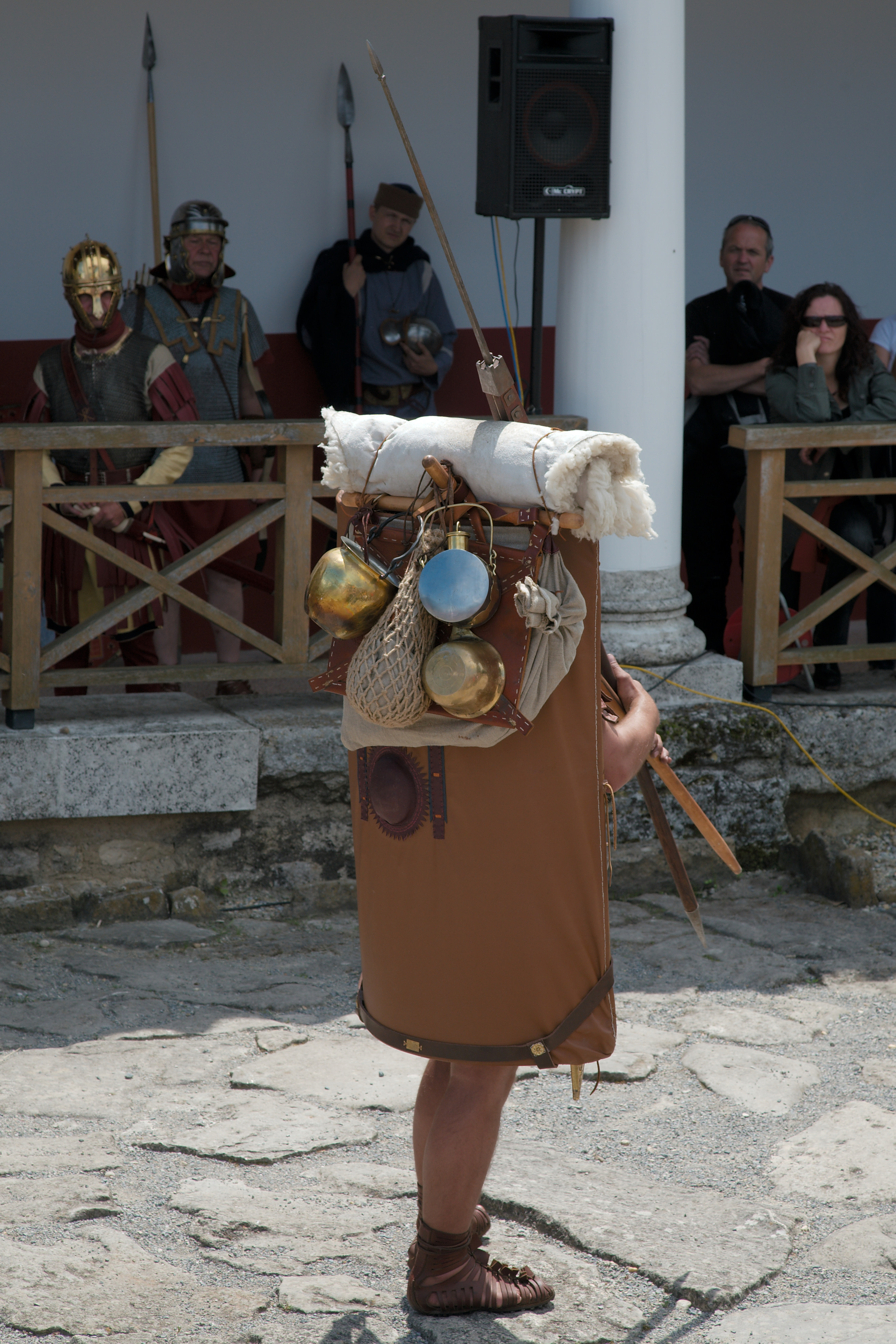 Roman legionaire 1. century with luggage back side. Reenactment of [1]